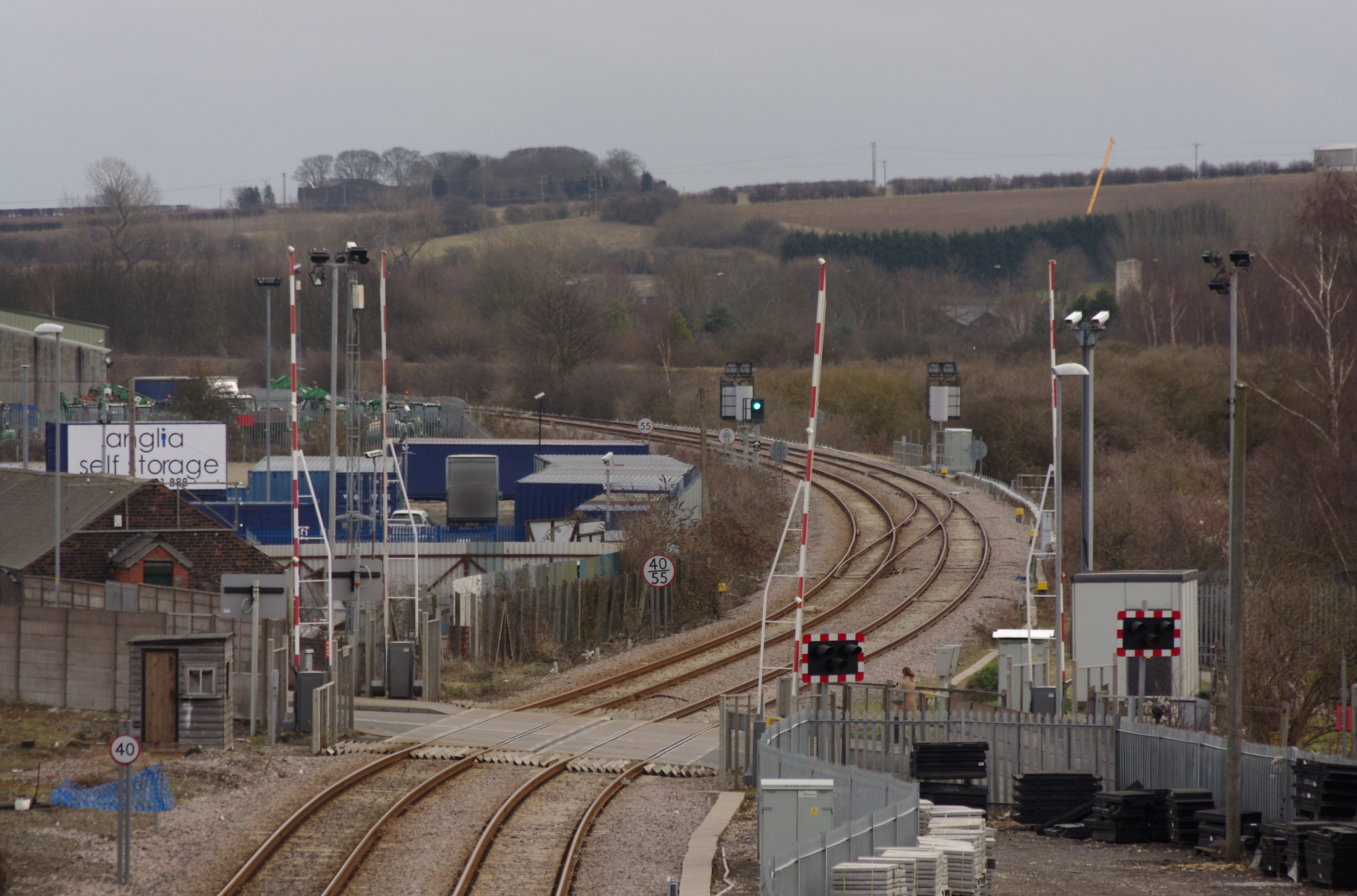 The Peterborough to Lincoln line, just east of Lincoln Central railway station.